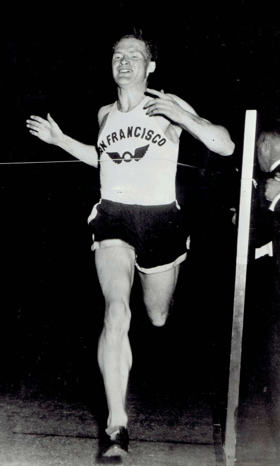 1946 Vintage Photo San Francisco Olympic Club long distance runner Norm Bright